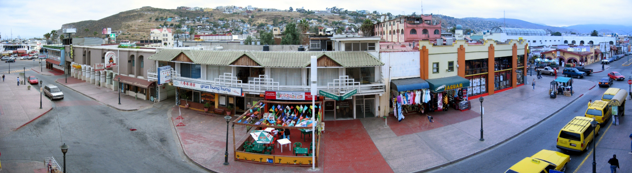 Ensenada mountain中文（台灣）: 墨西哥下加里福尼亞州恩森納達市山景。